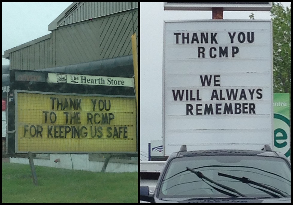 Local businesses thank the RCMP after the capture of the 2014 Moncton shooting suspect